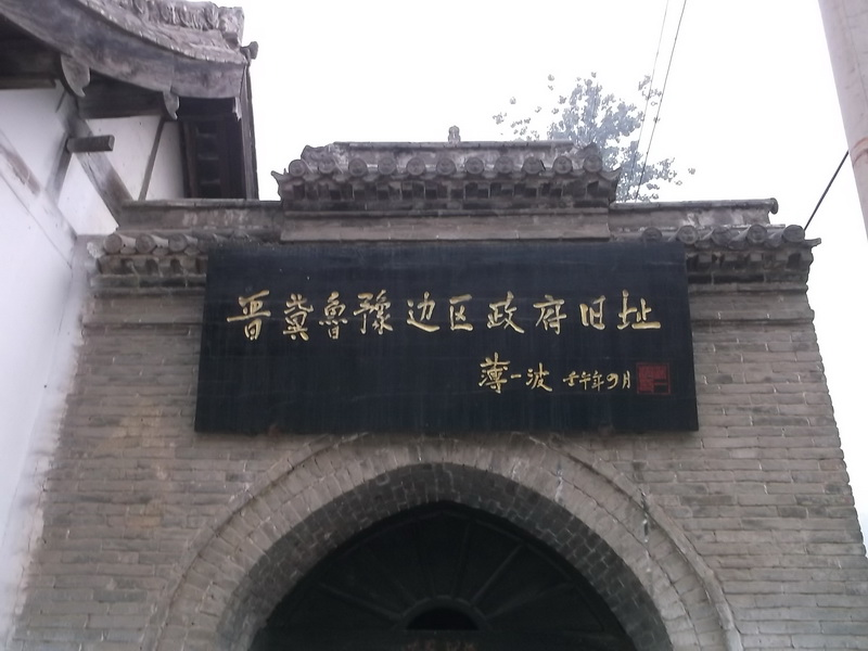 Jin Ji Lu Yu border government site is located in Handan County, Hebei Shexian. It is a transitional government of the CPC in North China during the War of Liberation. 2013 was announced as a national key cultural relics protection unit.